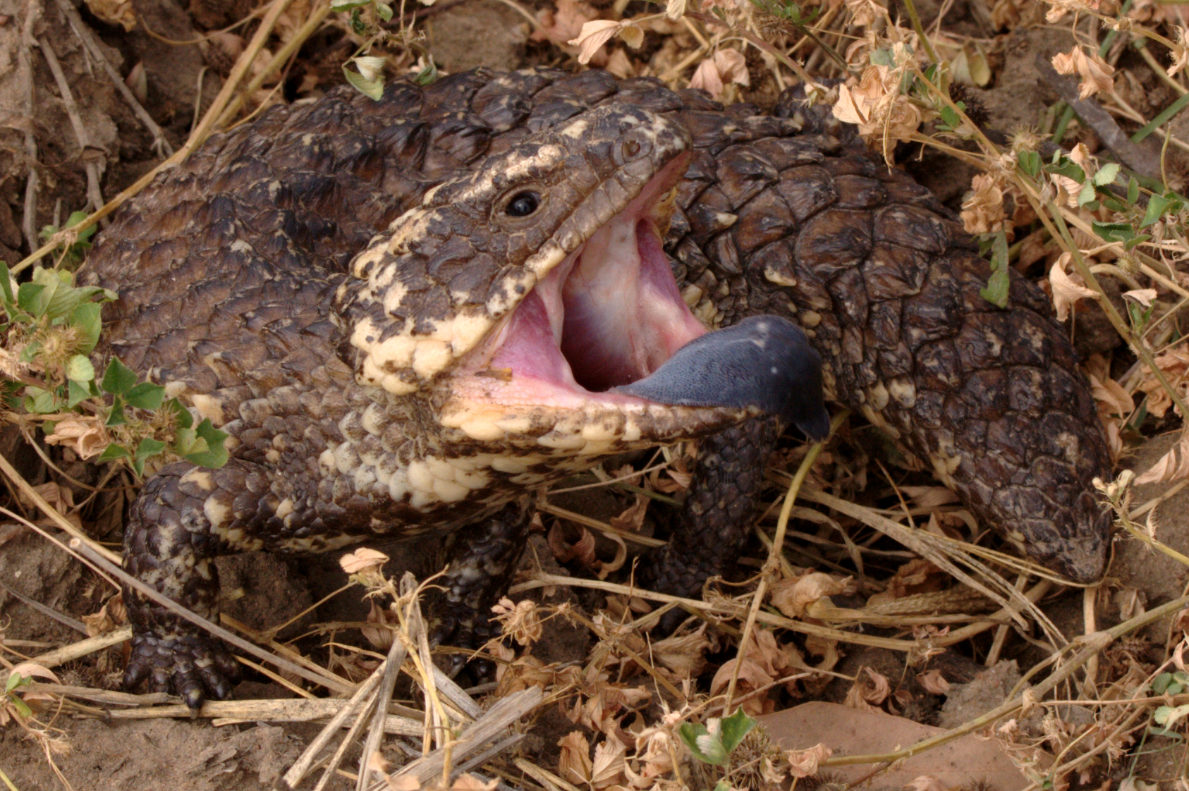 A shingleback (also known as the bobtail) in Australia.